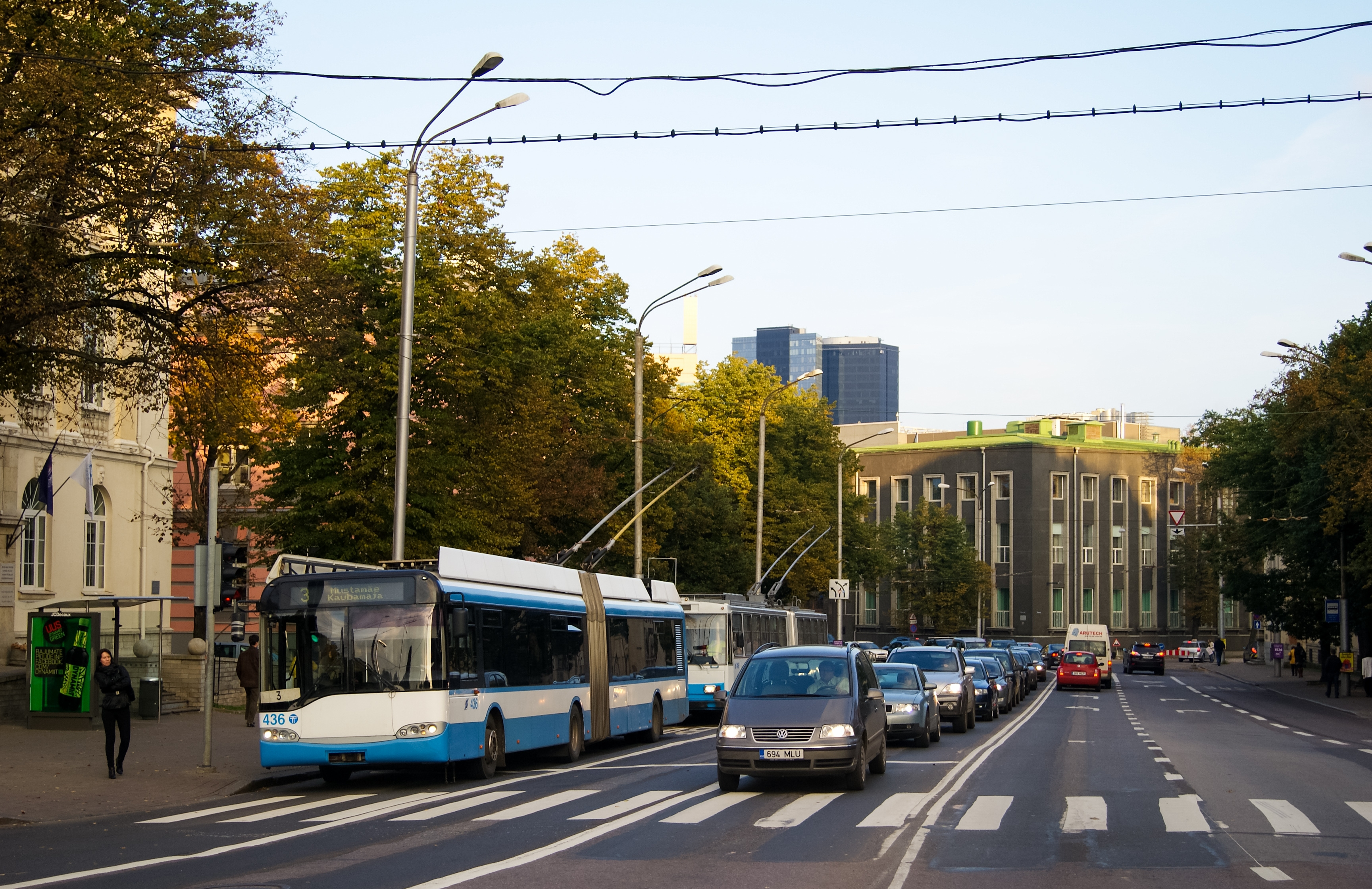 New and old trolley bus in Tallinn